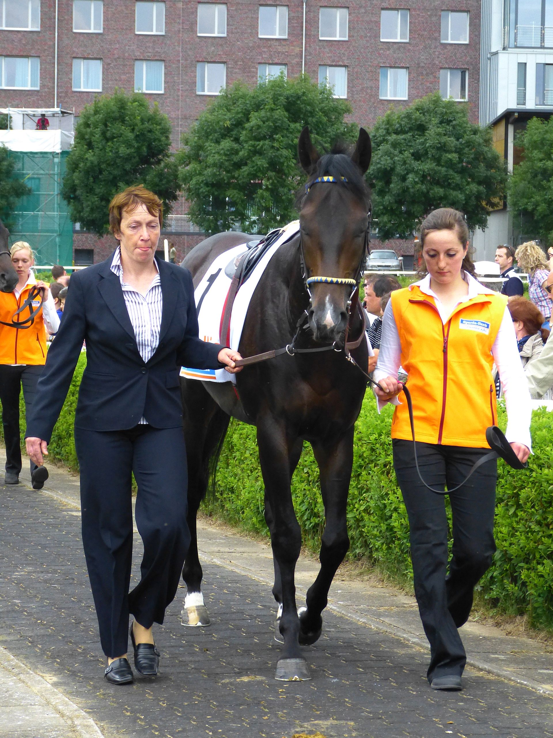 Novellist in the Paddock of the Deutsche Derby